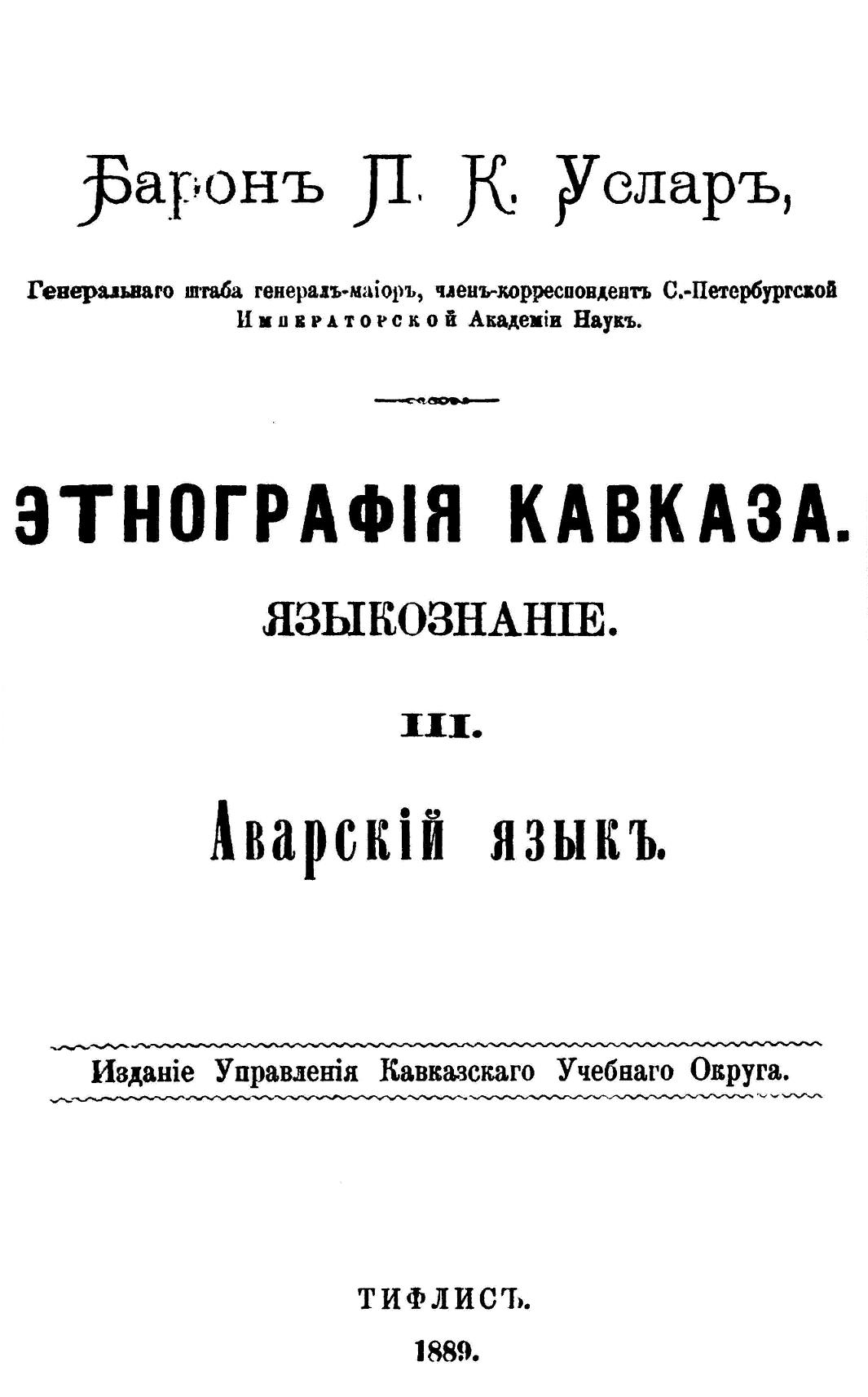 Cover of Peter Uslar's Avar Grammar (1889)